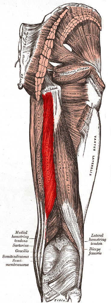 Muscles of the gluteal and posterior femoral regions with current muscle highlighted